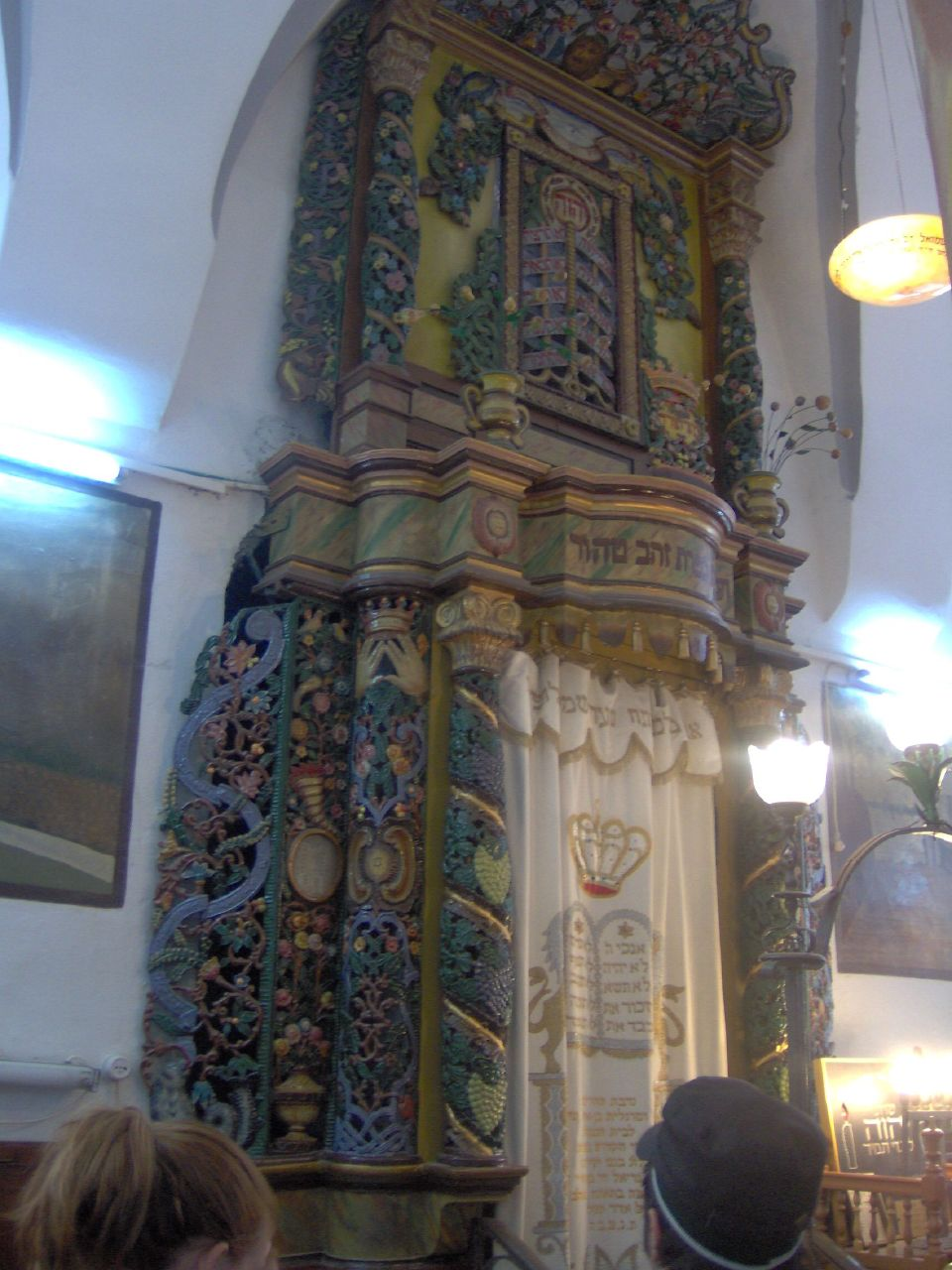 Safed - Ark at Sfat synagogue Isaac Luria